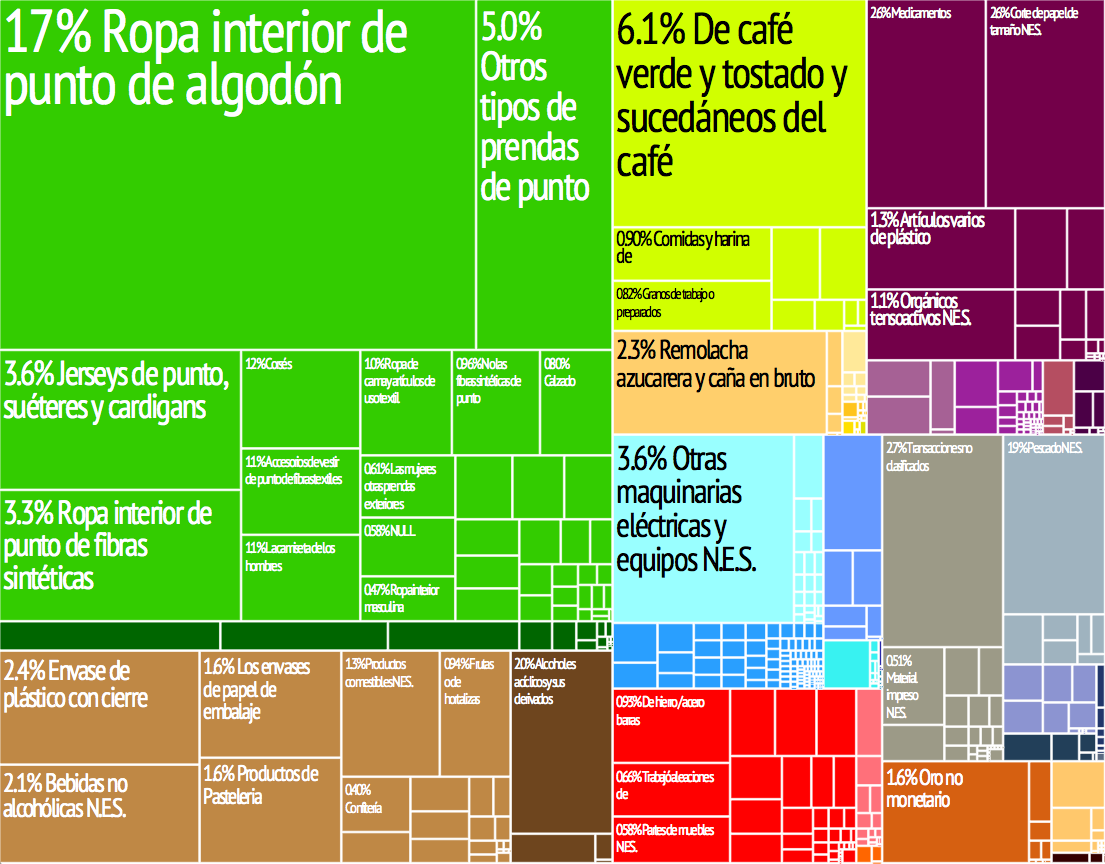 Representación gráfica de los productos de exportación del país en 28 categorías codificadas por color. Cada recuadro de color representa un producto y su tamaño es proporcional a la participación que ese producto representa dentro del total de las exportaciones del país.